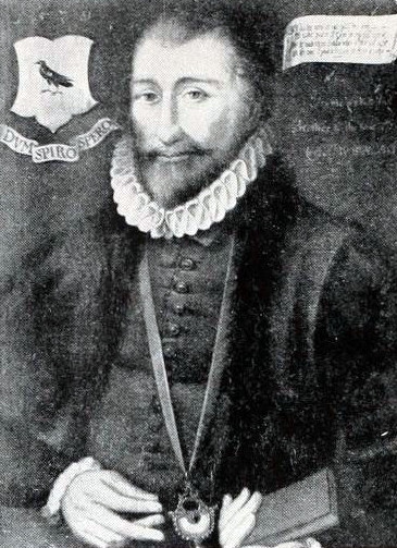 Jerome Corbet (died 1598) of the Middle Temple and Beslow, Shropshire. A prominent Elizabethan lawyer, member of the Council in the Marches of Wales. Brother of Sir Andrew Corbet (died 1578). Photo of late 16th century painting.